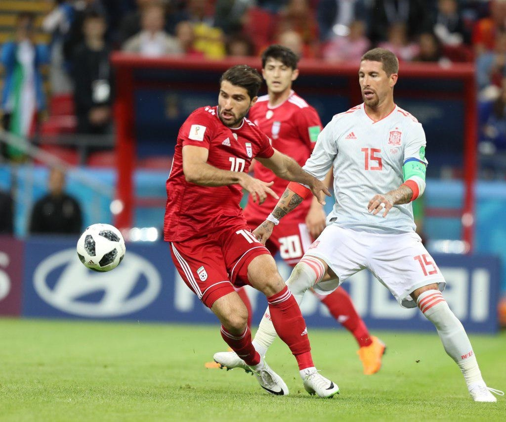 Iran and Spain match at the FIFA World Cup 2018